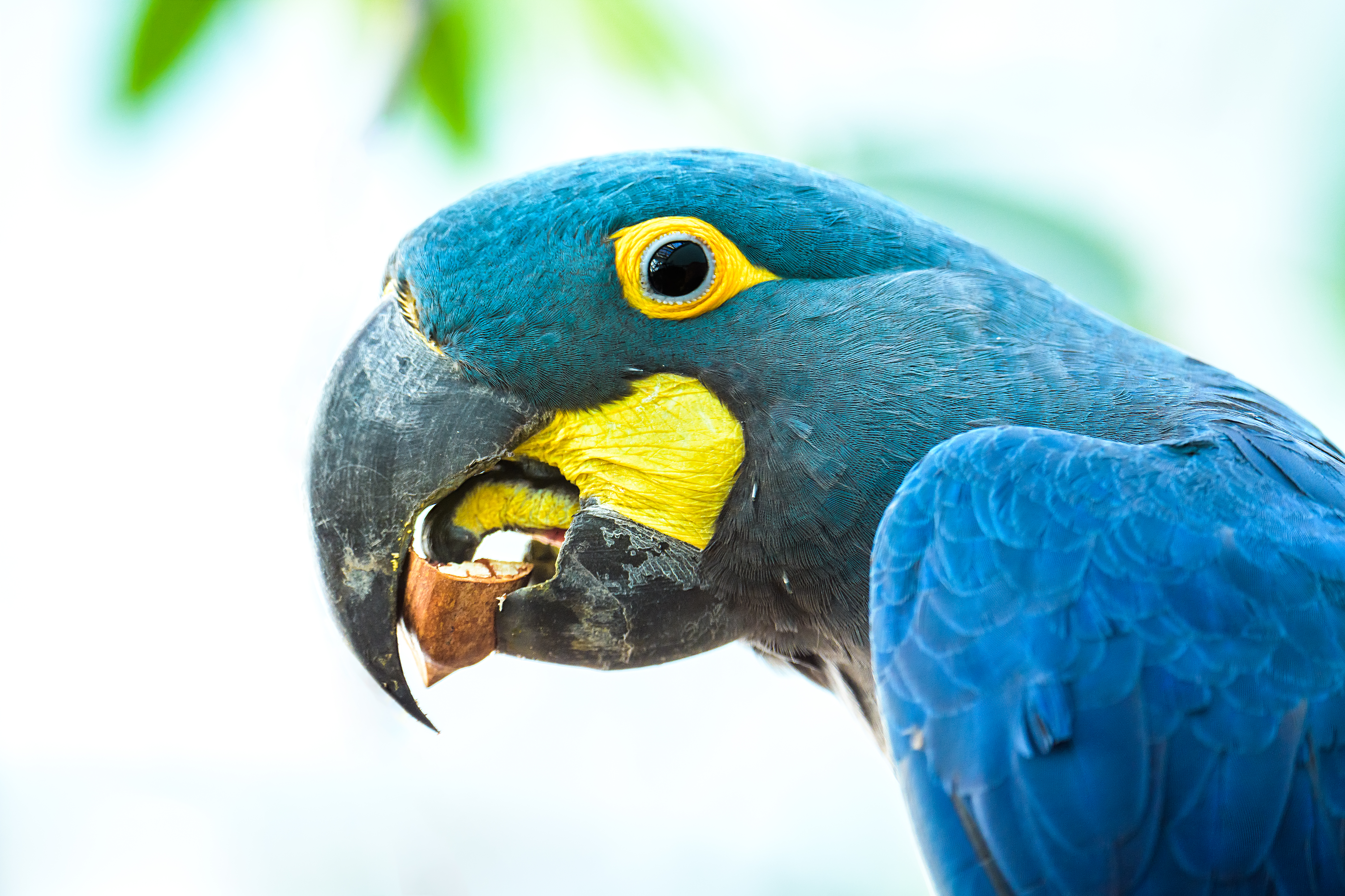 Lear's macaw in Rákos' House, Prague Zoo